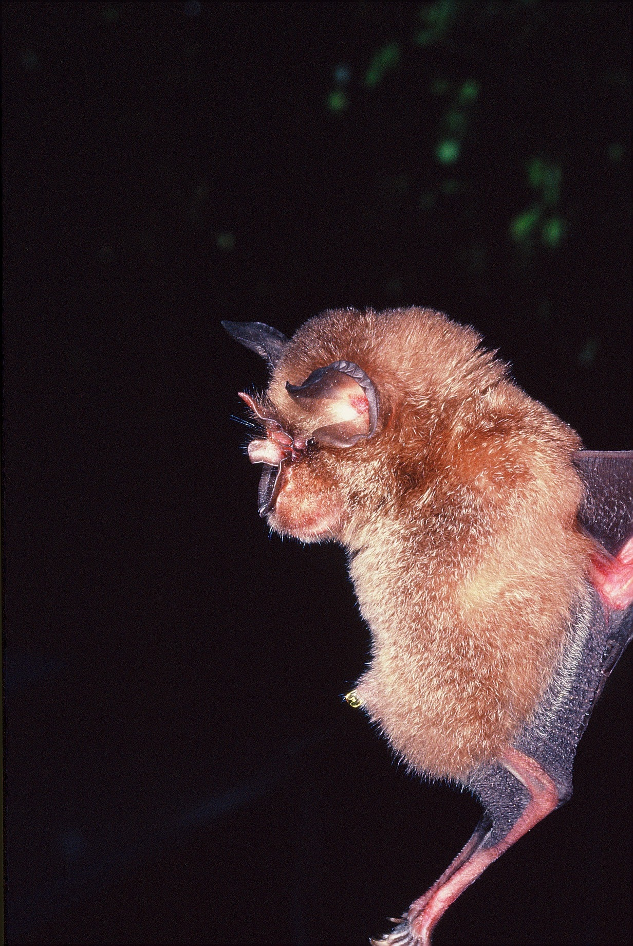 MT Abdullah. Tabdulla 11:05, 15 October 2006 (UTC)